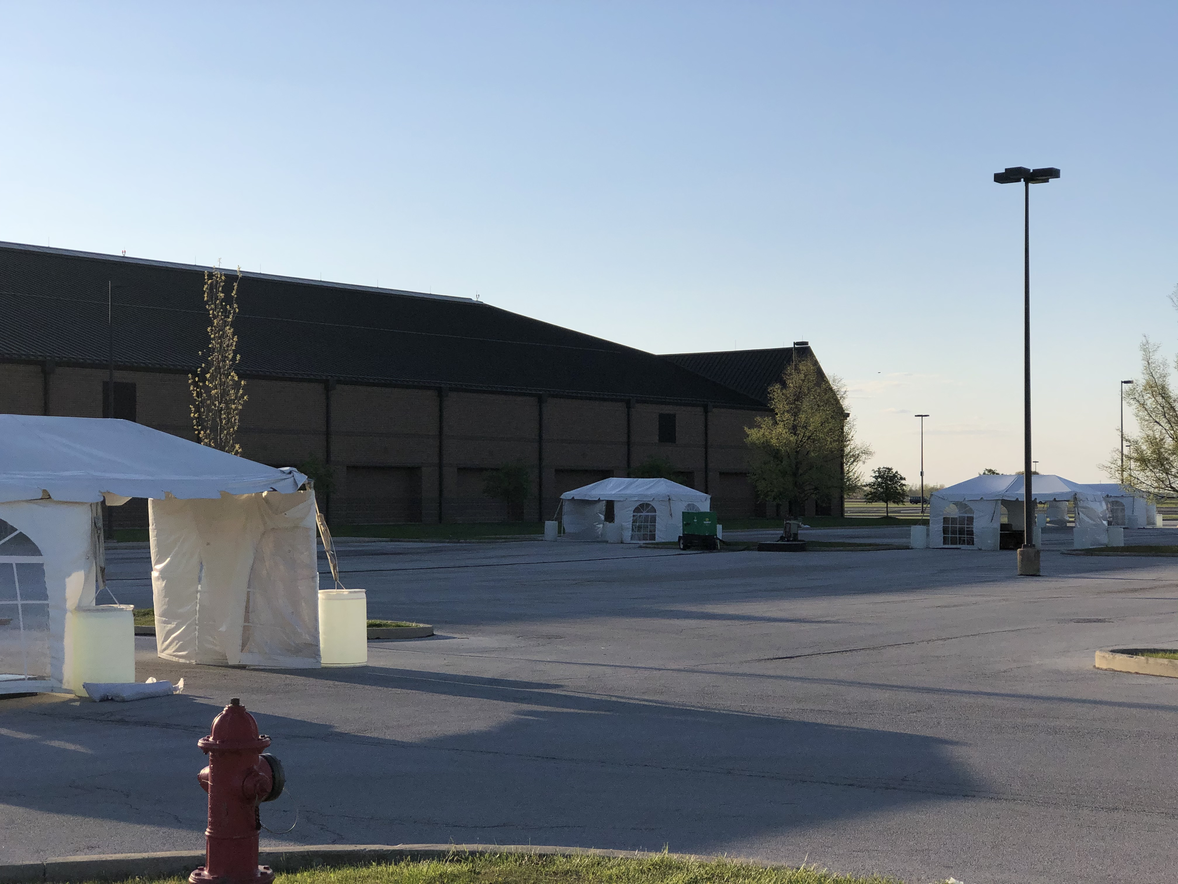 Site for COVID-19 Drive Thru testing at Bowling Green State University after hours.